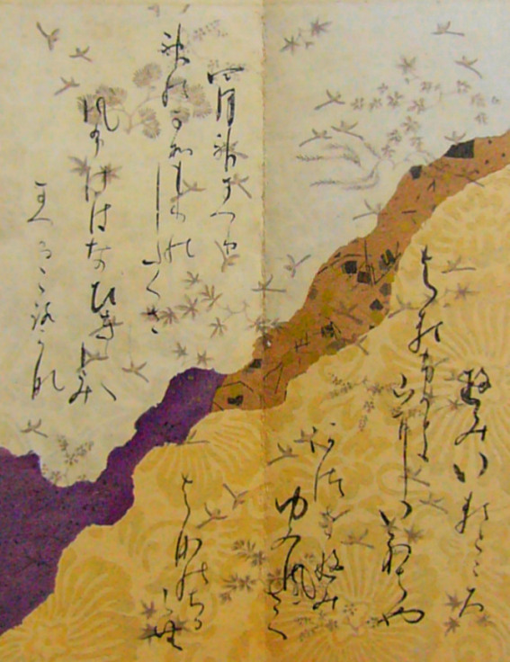 A cutting from the collected poems of Minamoto no Shitagō ( ACE911- ACE983). 20cm height, 16cm wide. Gold, Silver and ink on ornamented paper(mozaique,papier-collee). Before 19th century, This was off from the volume whichi is one of the Collection of the works of thirty six master poets in the NISHI-HONGANJI, Kyoto. Most luxurious illuminated manuscript books survived from ancient Japan.